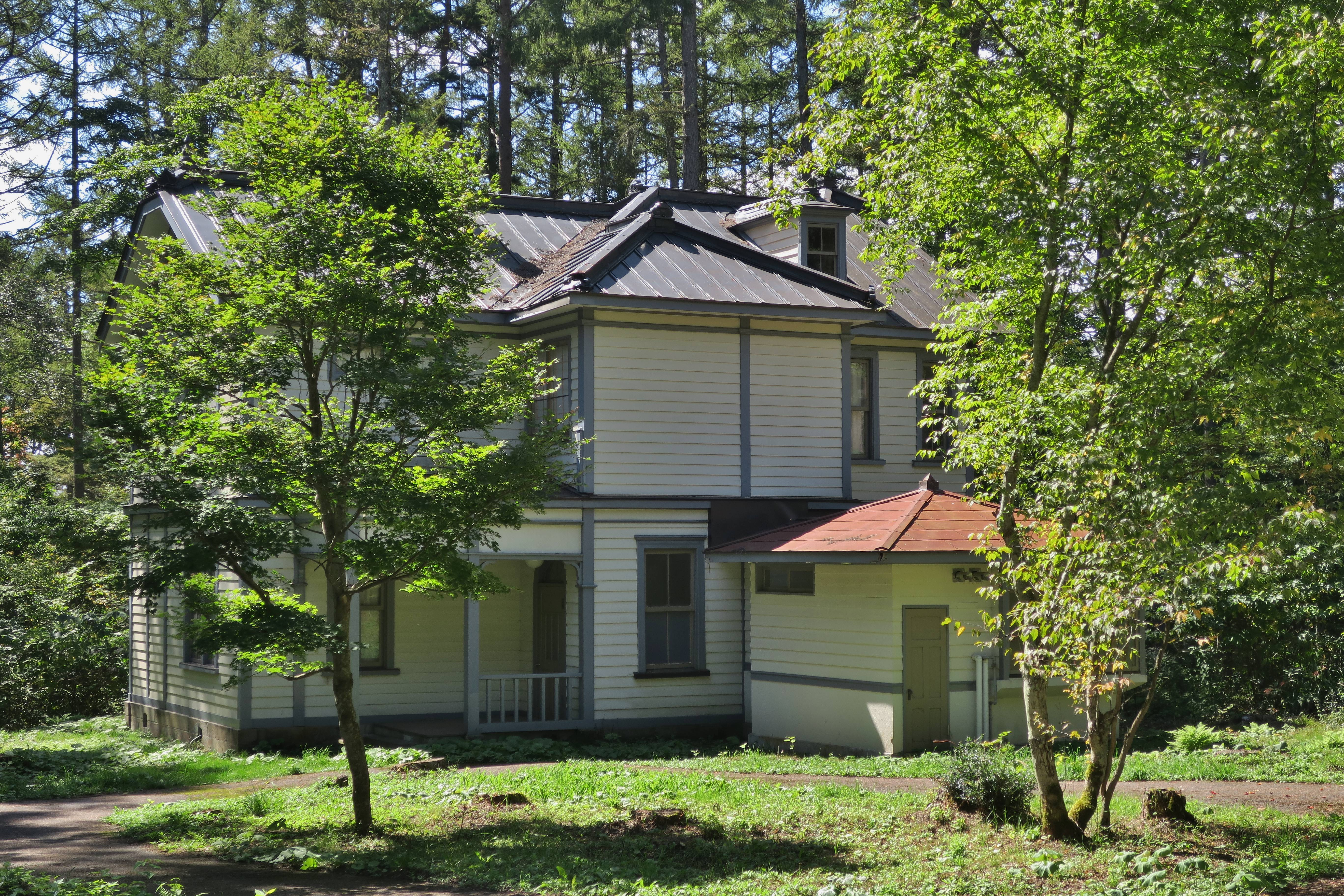 Former Residence of Daniel Norman (Nagano, Nagano).